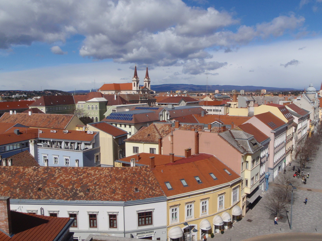 Szombathely Main Square from Cityhall